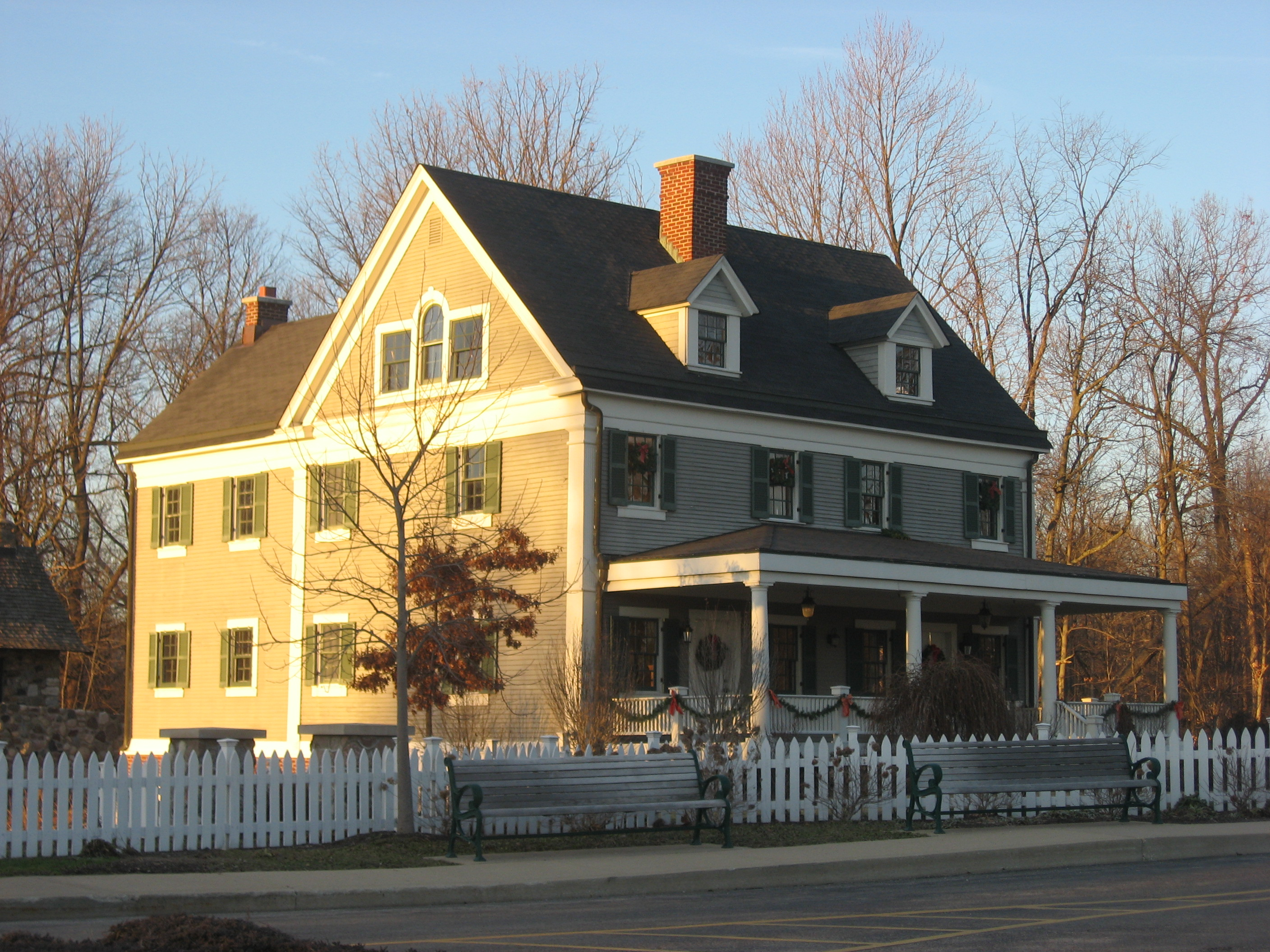 Front and western side of the West-Harris House, located at 10595 Eller Road in Fishers, Indiana, United States. Built in 1895, it is listed on the National Register of Historic Places.